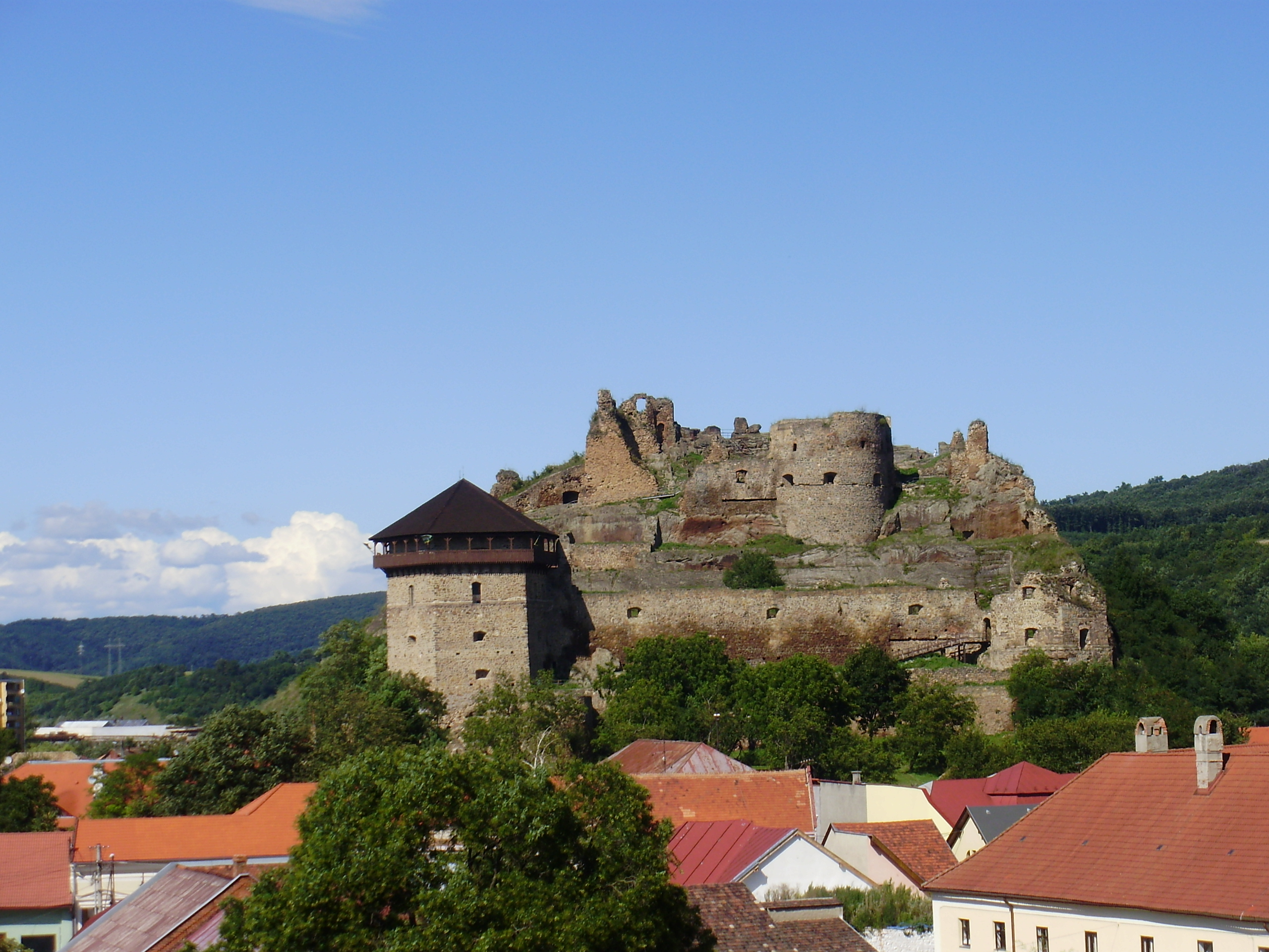 Filakovo Castle